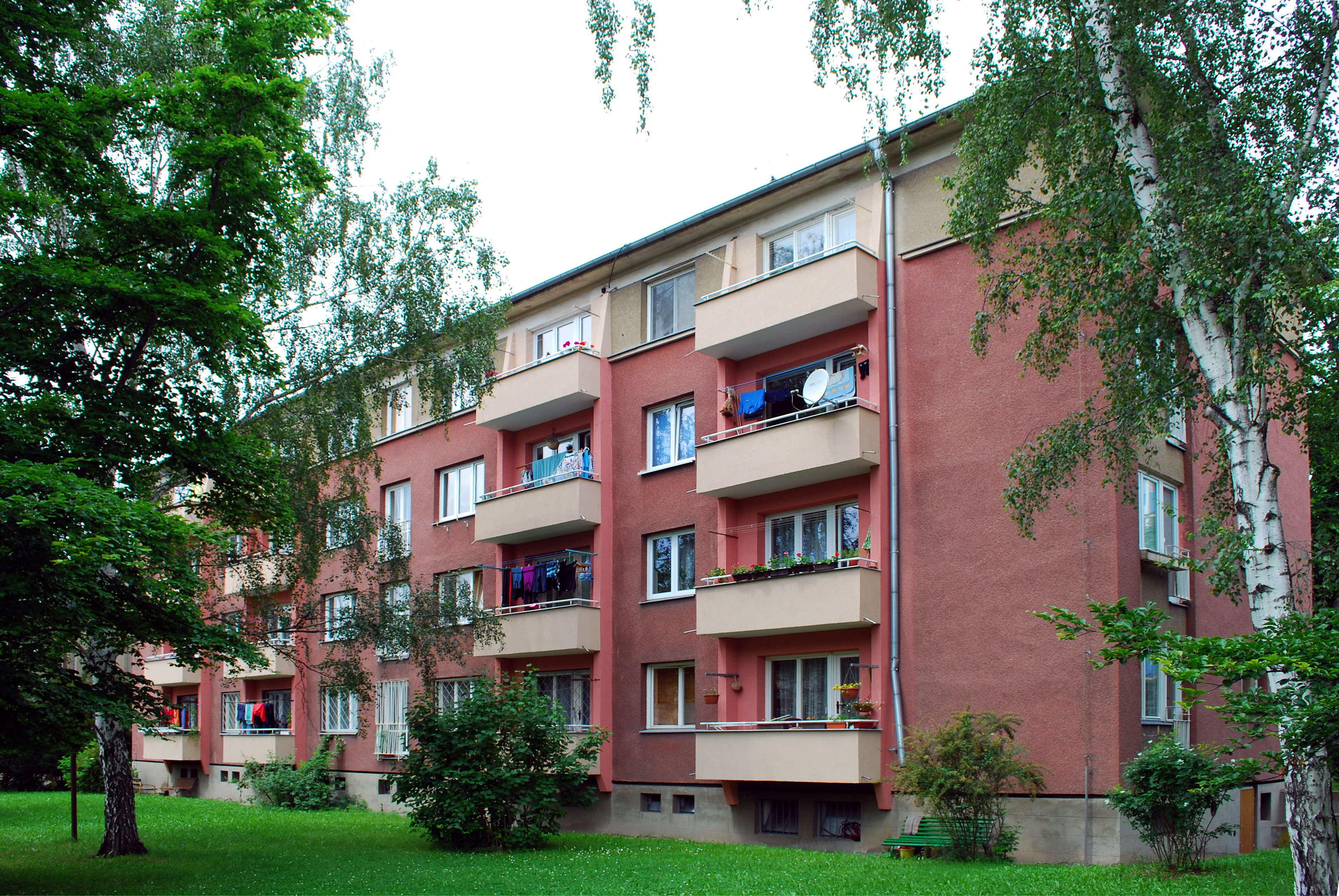 Rental Housing in Usti nad Labem